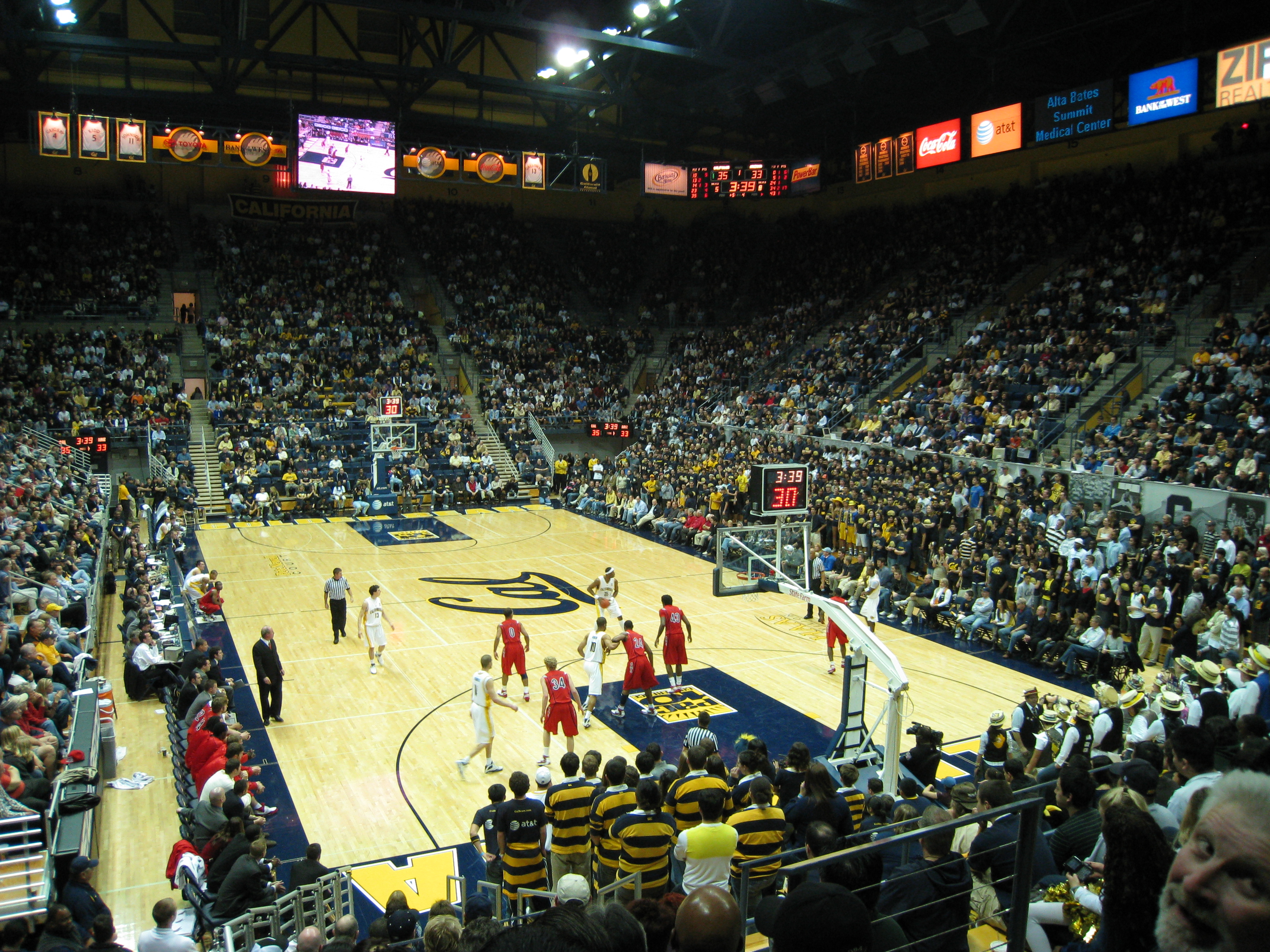 The interior of Haas Pavilion on the UC Berkeley campus. Taken 1/19/08